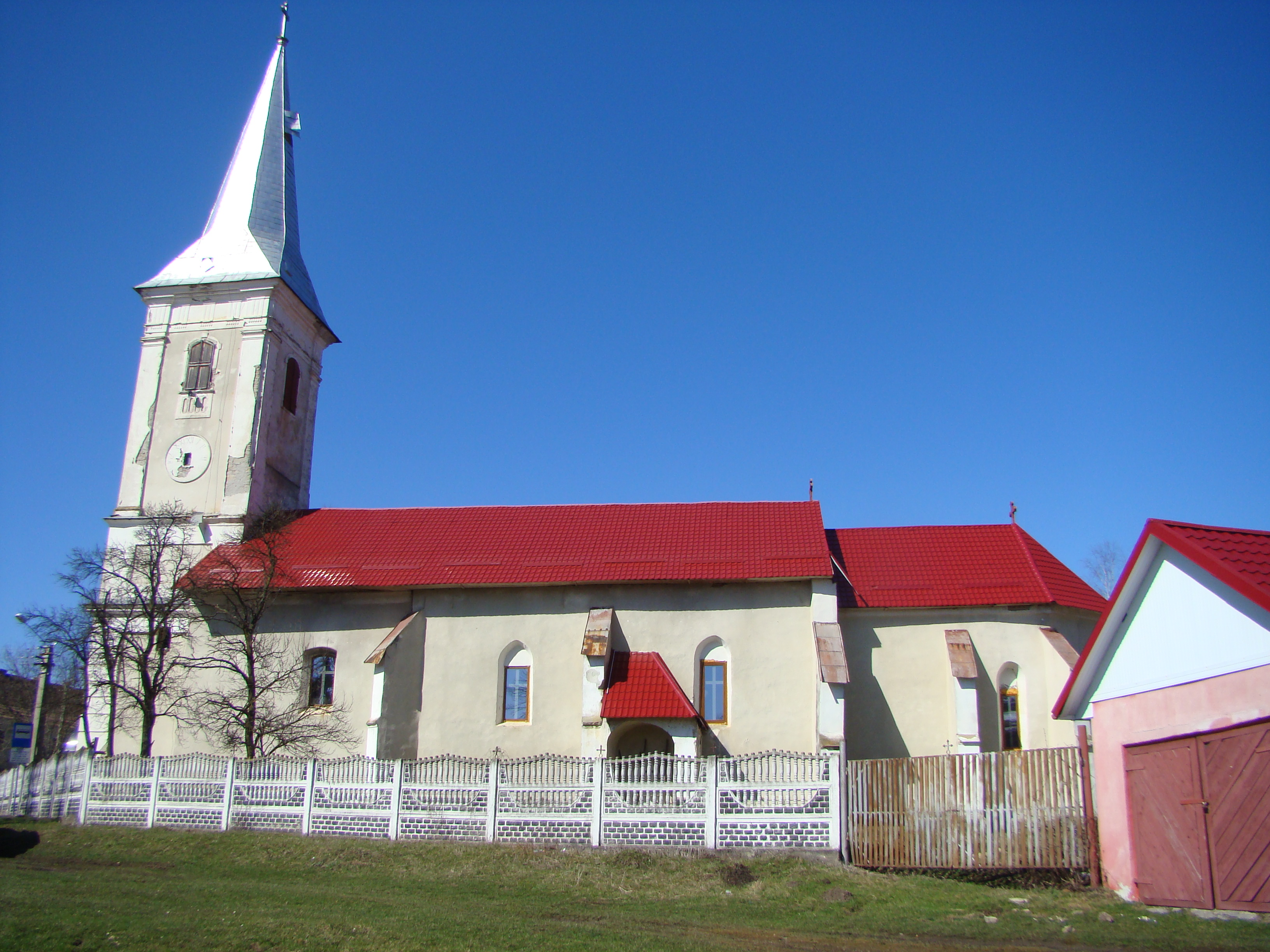 Lutheran church in Slătinița, Bistrița-Năsăud County, Romania